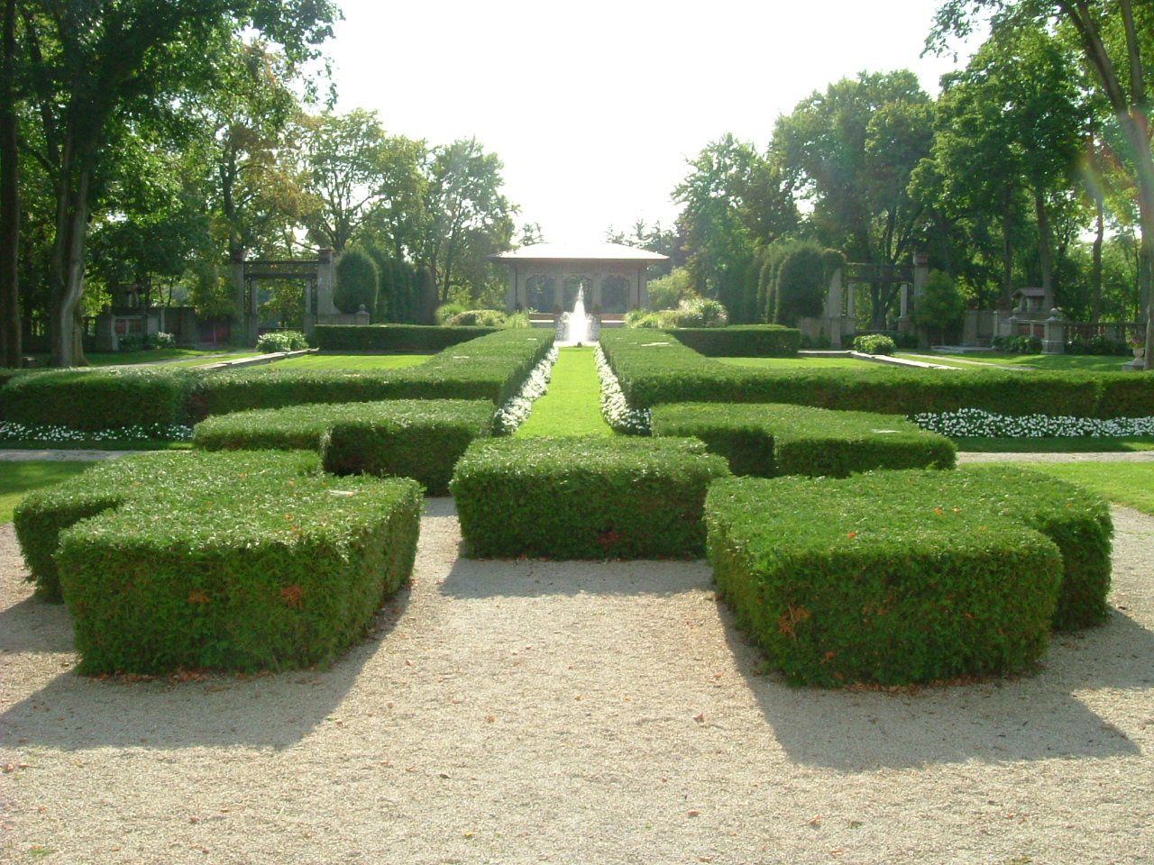 Photograph of the Formal Gardens at Lake Forest Academy. I took this photo myself and hereby release all rights. Dylan 15:53, 18 December 2005 (UTC)